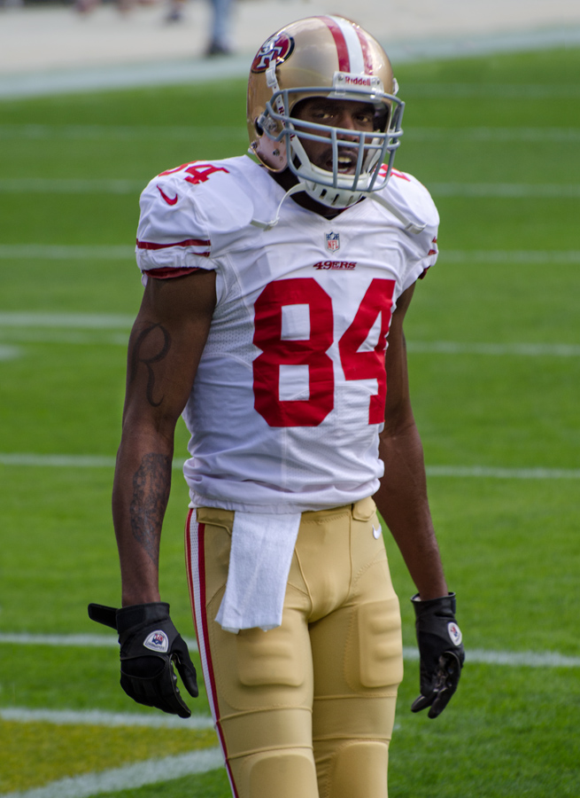 San Francisco 49ers vs. Green Bay Packers at Lambeau Field on September 9, 2012. Photo by Mike Morbeck.